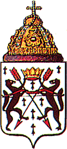 Coat of Arms of the Kingdom of Siberia